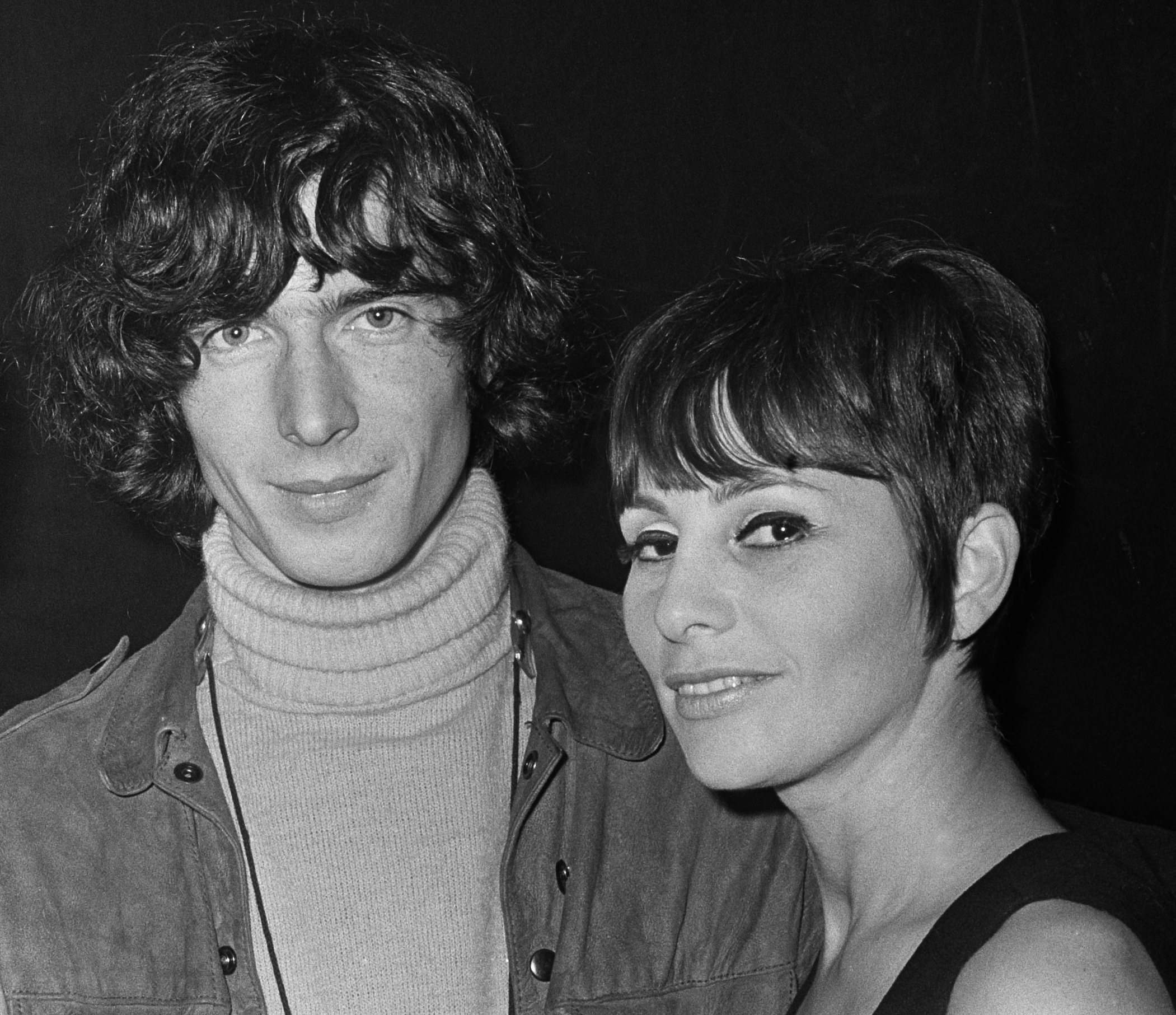 Boudewijn de Groot en Ann Burton in het Thorbecke-theater 17 november 1966